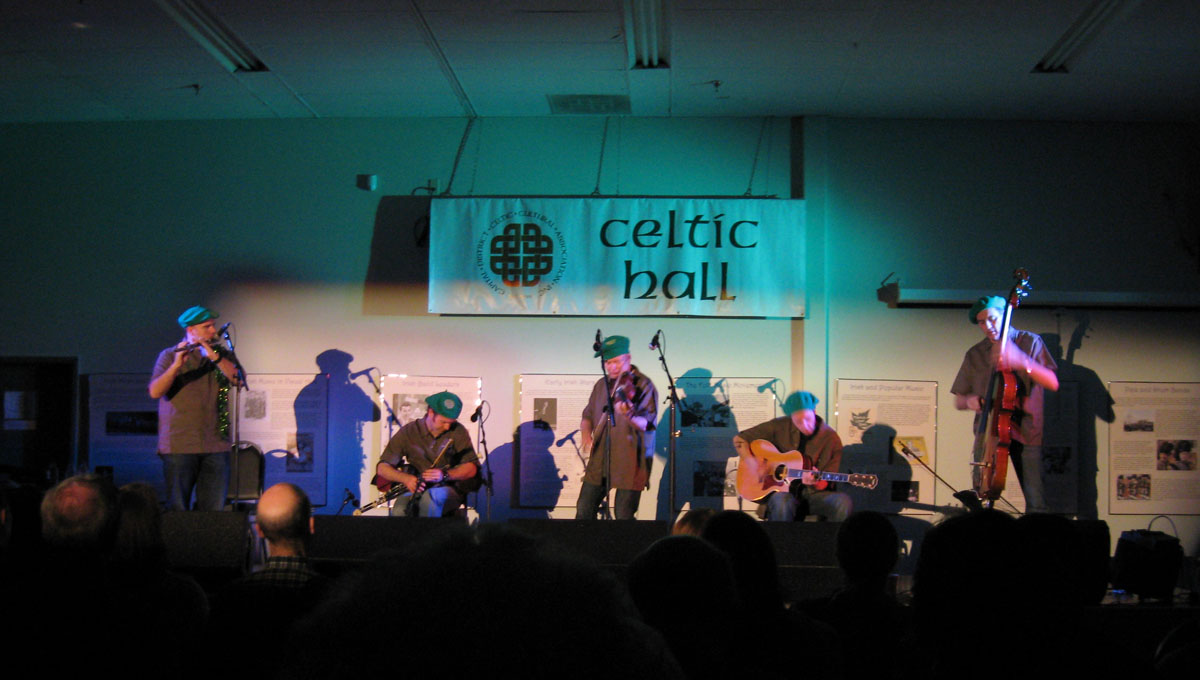 A group shot of Lúnasa at the Celtic Hall in East Greenbush, New York